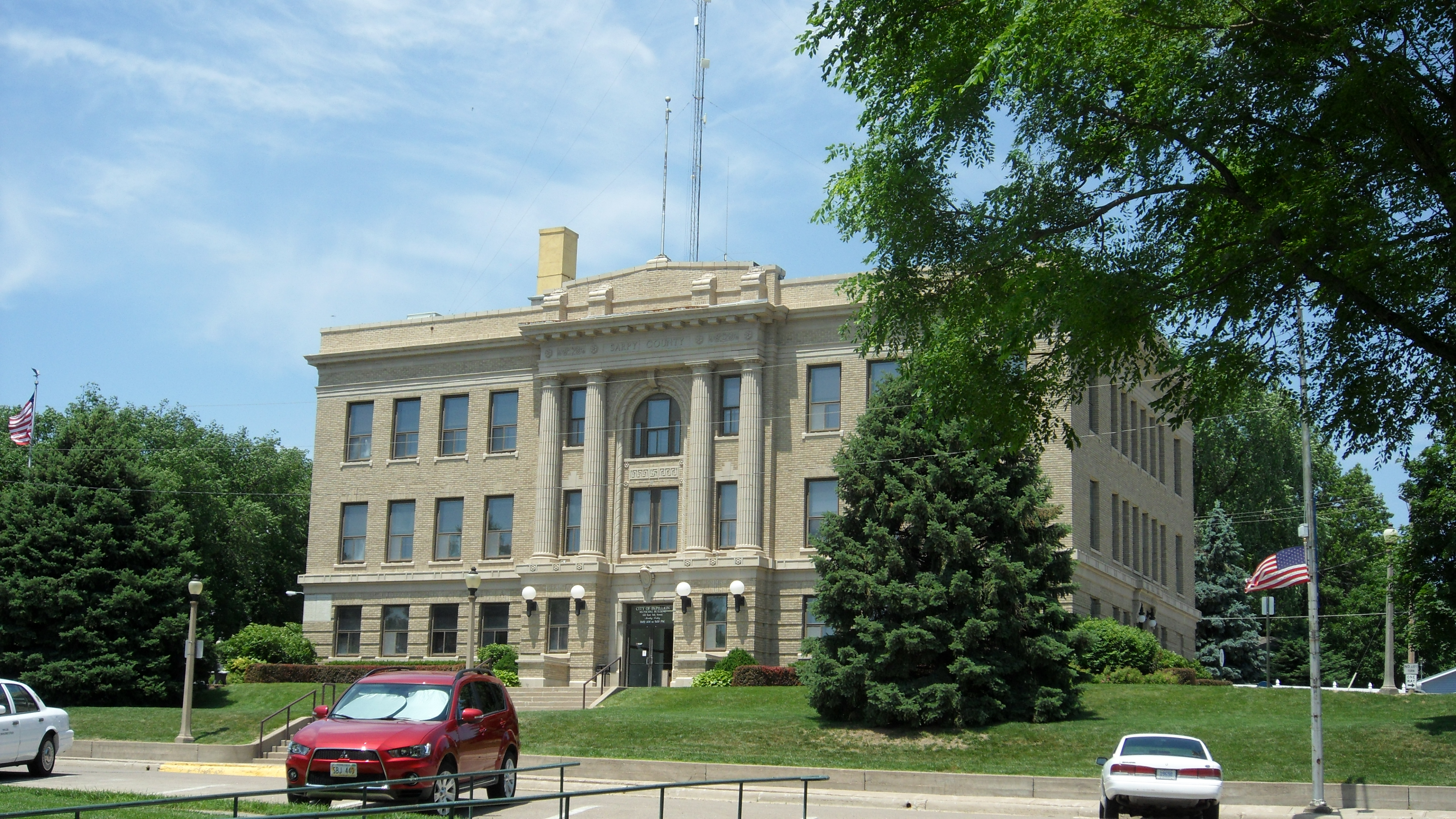 The Papillion, Nebraska Municipal Building along Third Street. This building formerly served as the Sarpy County Courthouse.